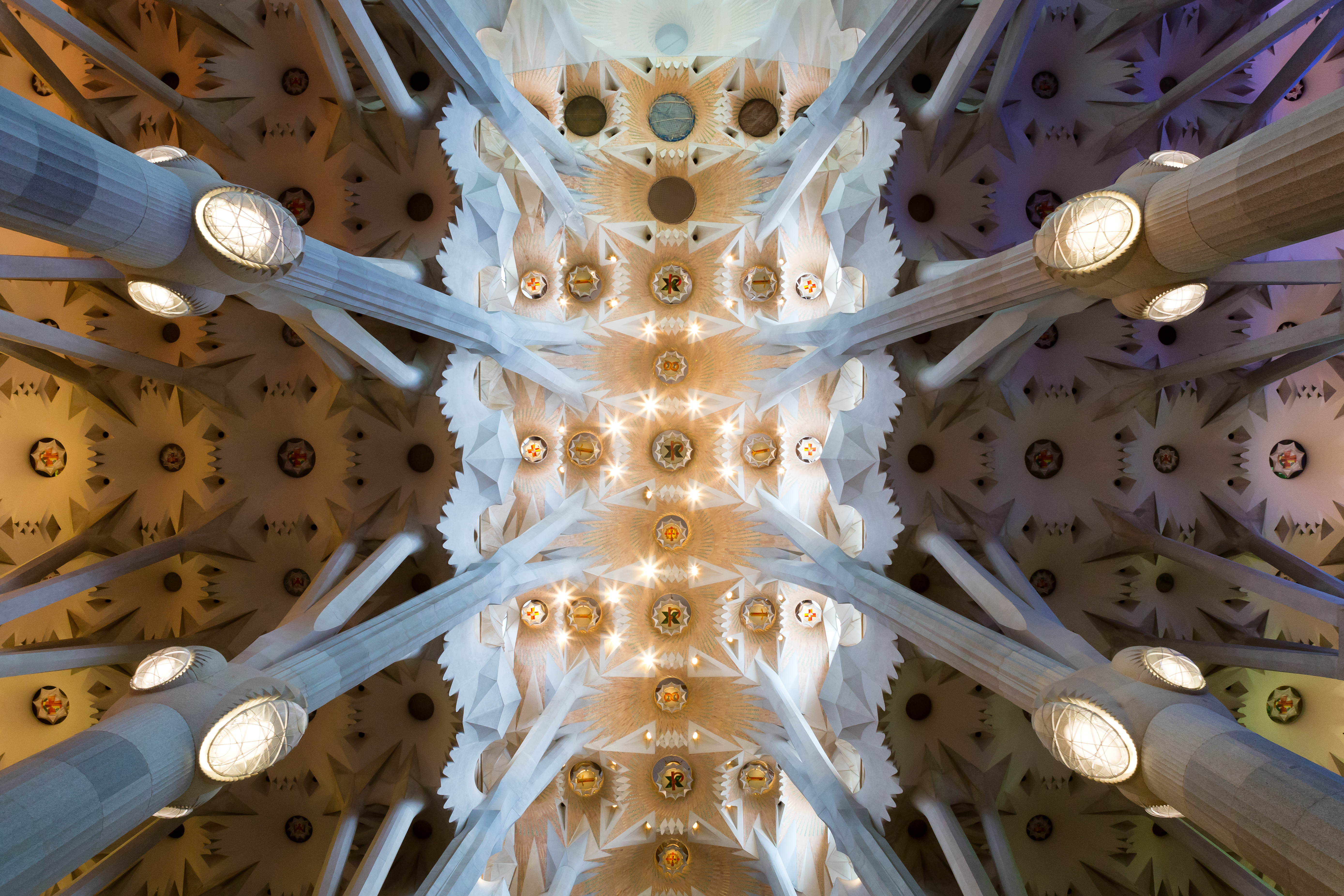 Interior view to the ceiling of Sagrada Familia